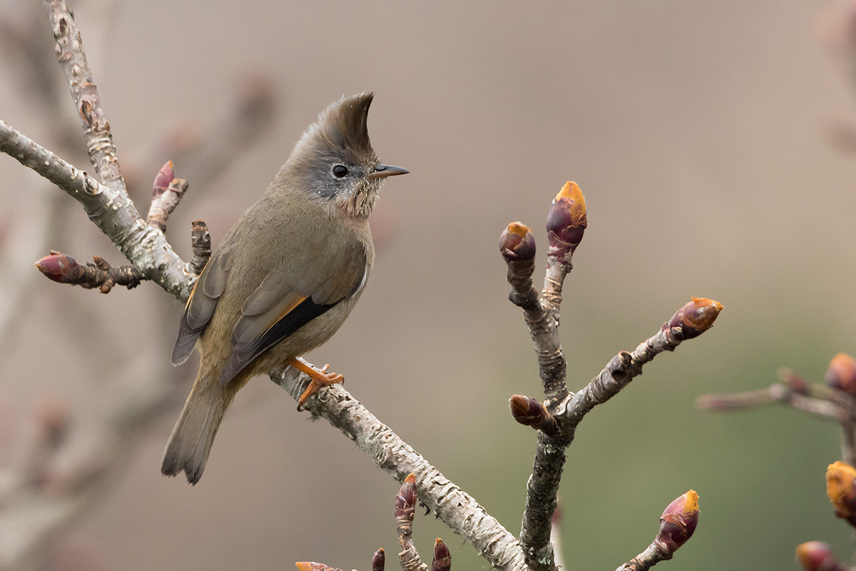 Strite Throated Yuhina